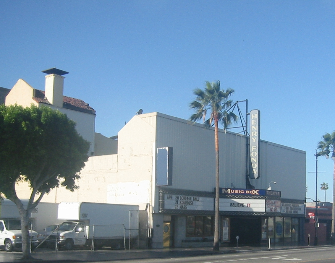 Henry Fonda Theater in Hollywood, California